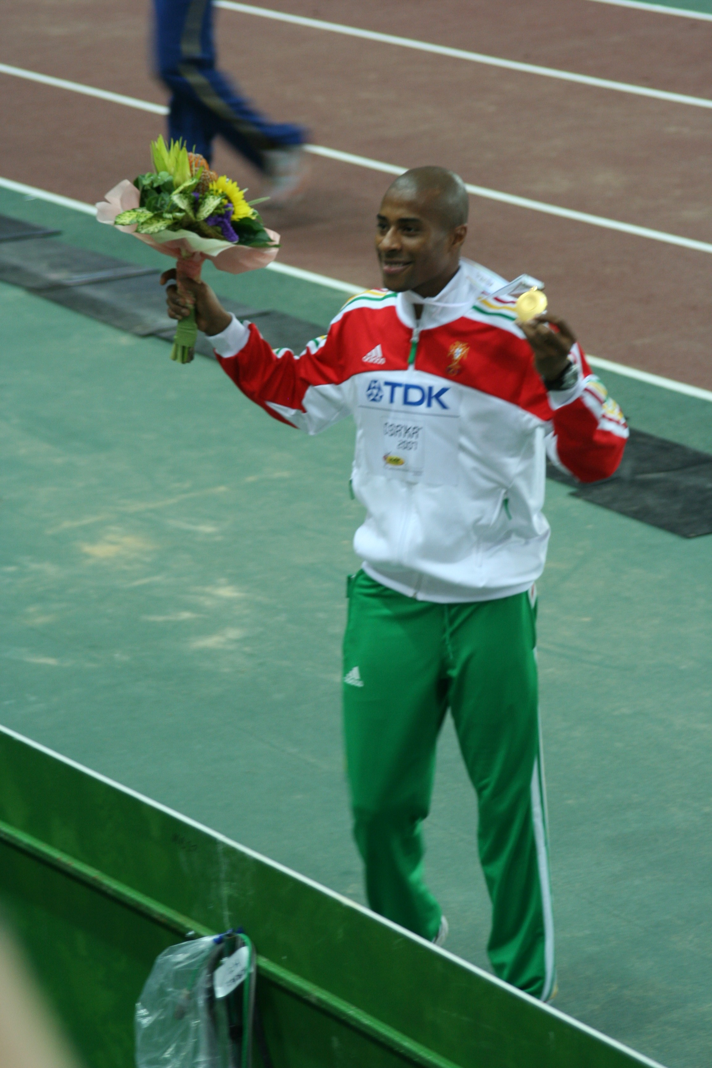 World Athletics Championships 2007 in Osaka - Triple Jump Winner Nelson Évora (Portugal) showing his gold medal